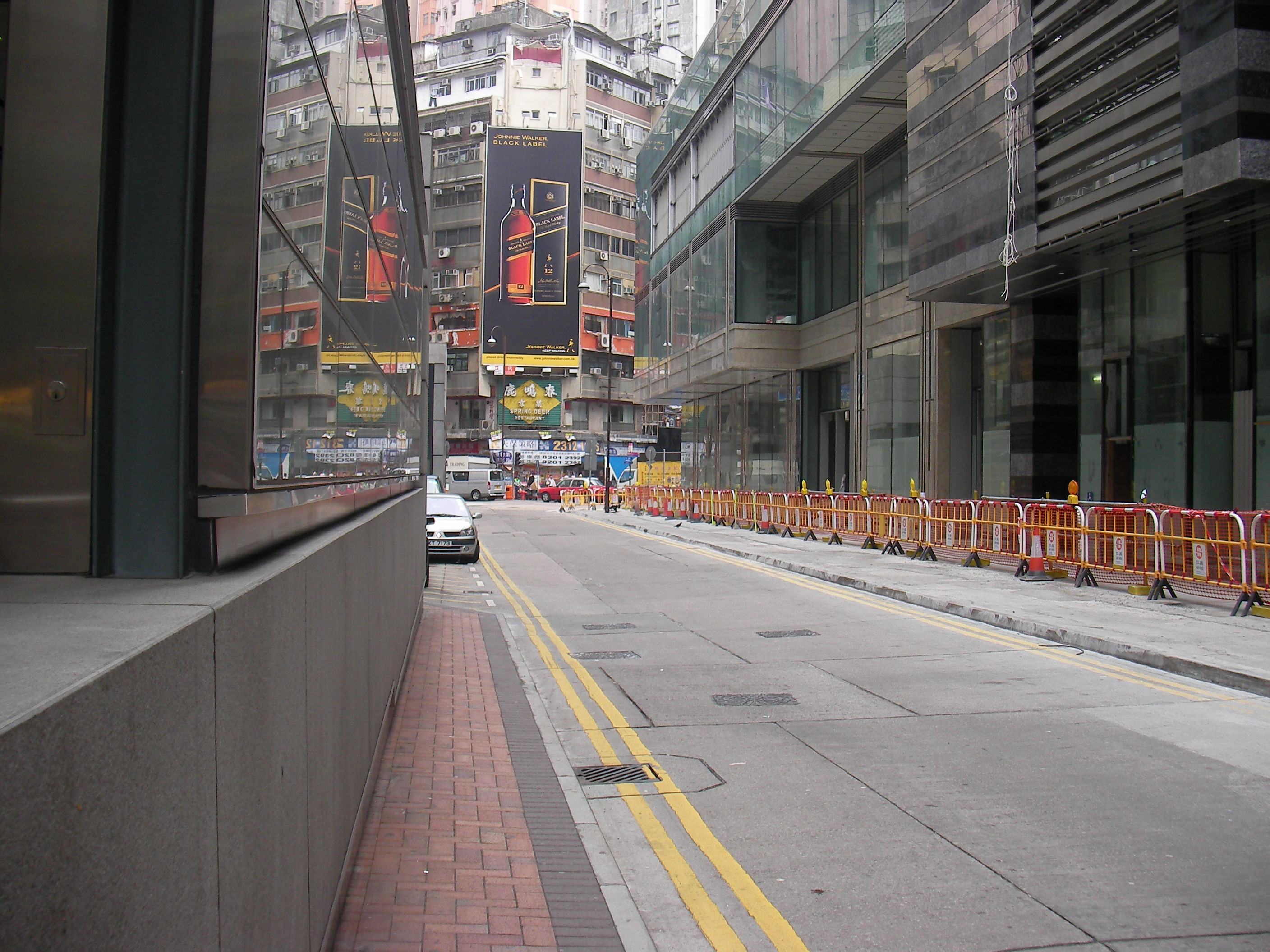 Hanoi Road, Tsim Sha Tsui, Hong Kong